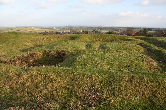 Nether Stowey Castle, Somerset. The lines of the walls show clearly on the motte of the castle. A small area has been excavated, showing stonework below the surface. The castle was built in the early 12th century by Alfred of Spain.